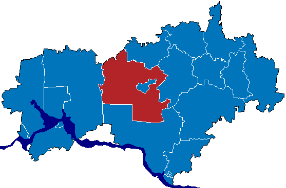 Site of the Medvedevsky area of Mari El on a republic map